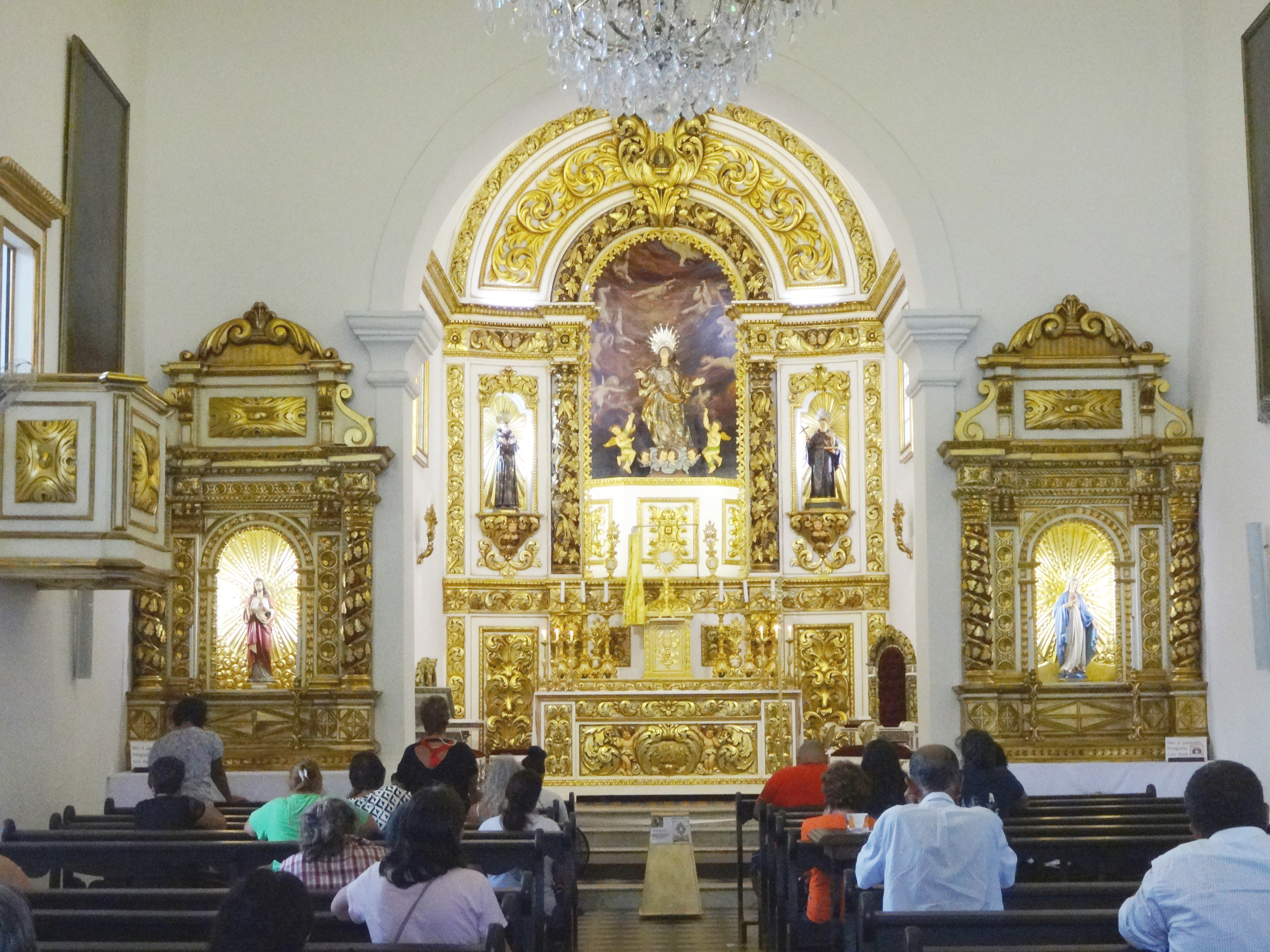 Interior of the Nossa Senhora da Assunção Church in Cabo Frio, Brazil